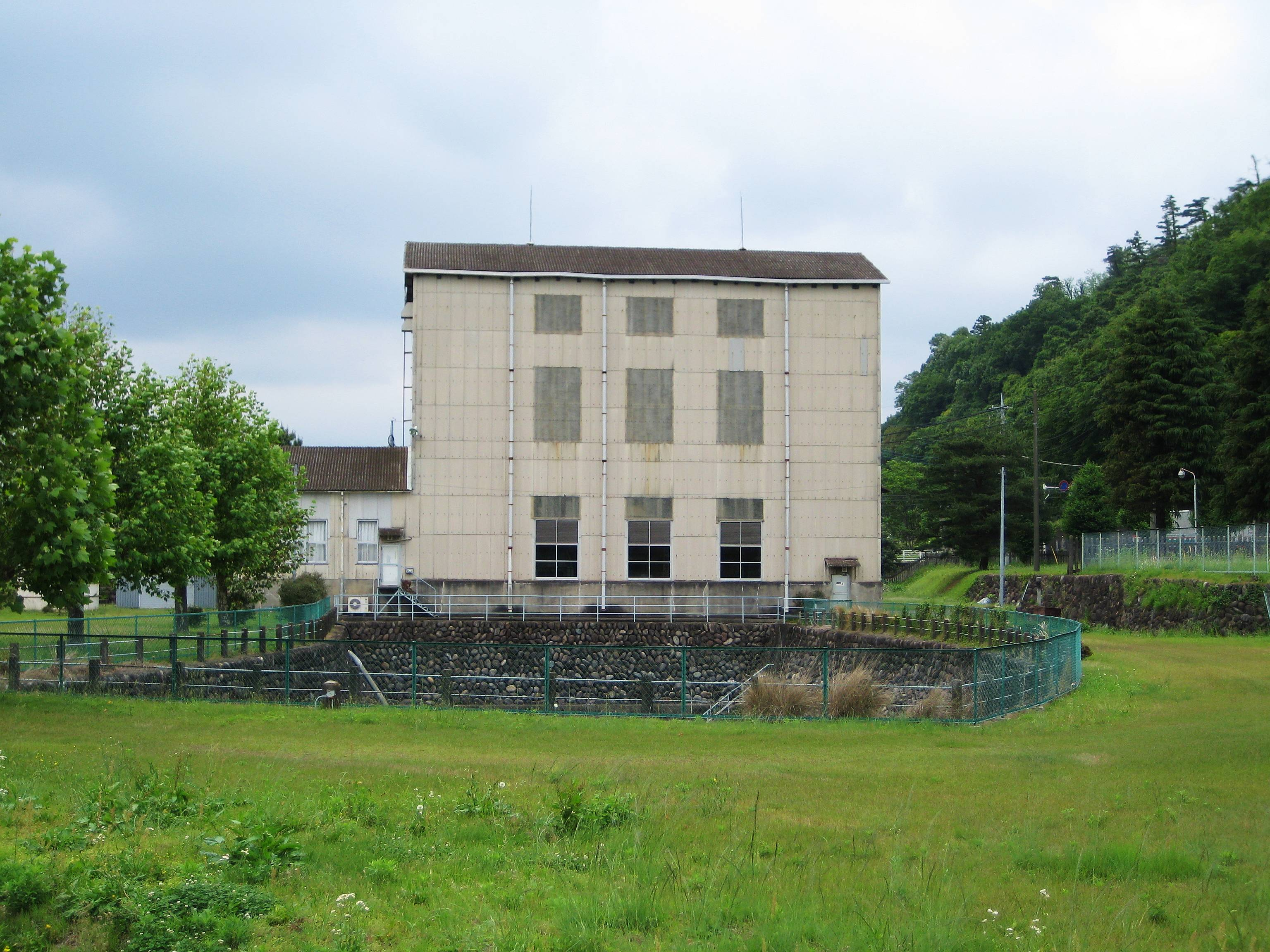 Kōtō power station.